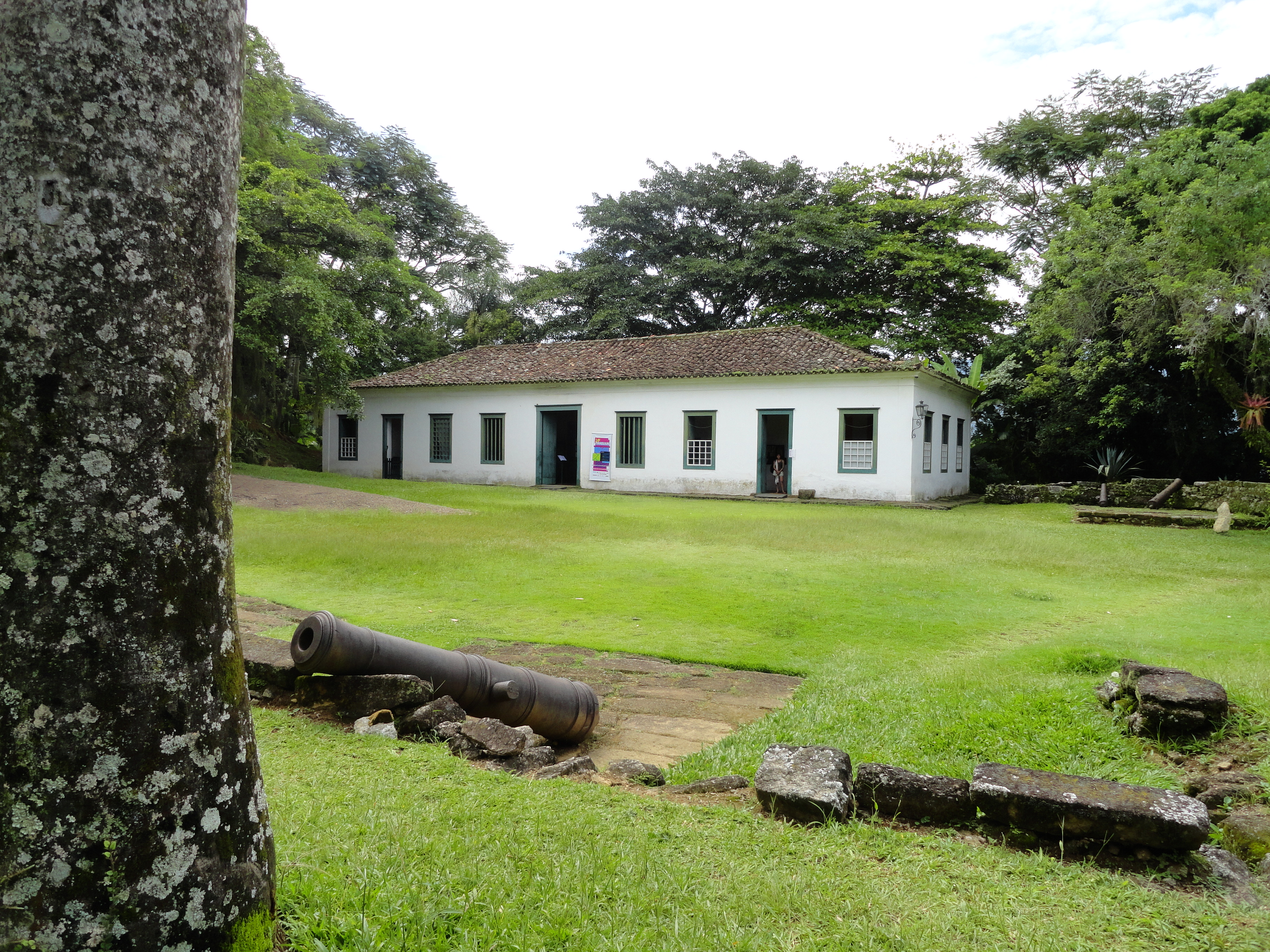 in Paraty